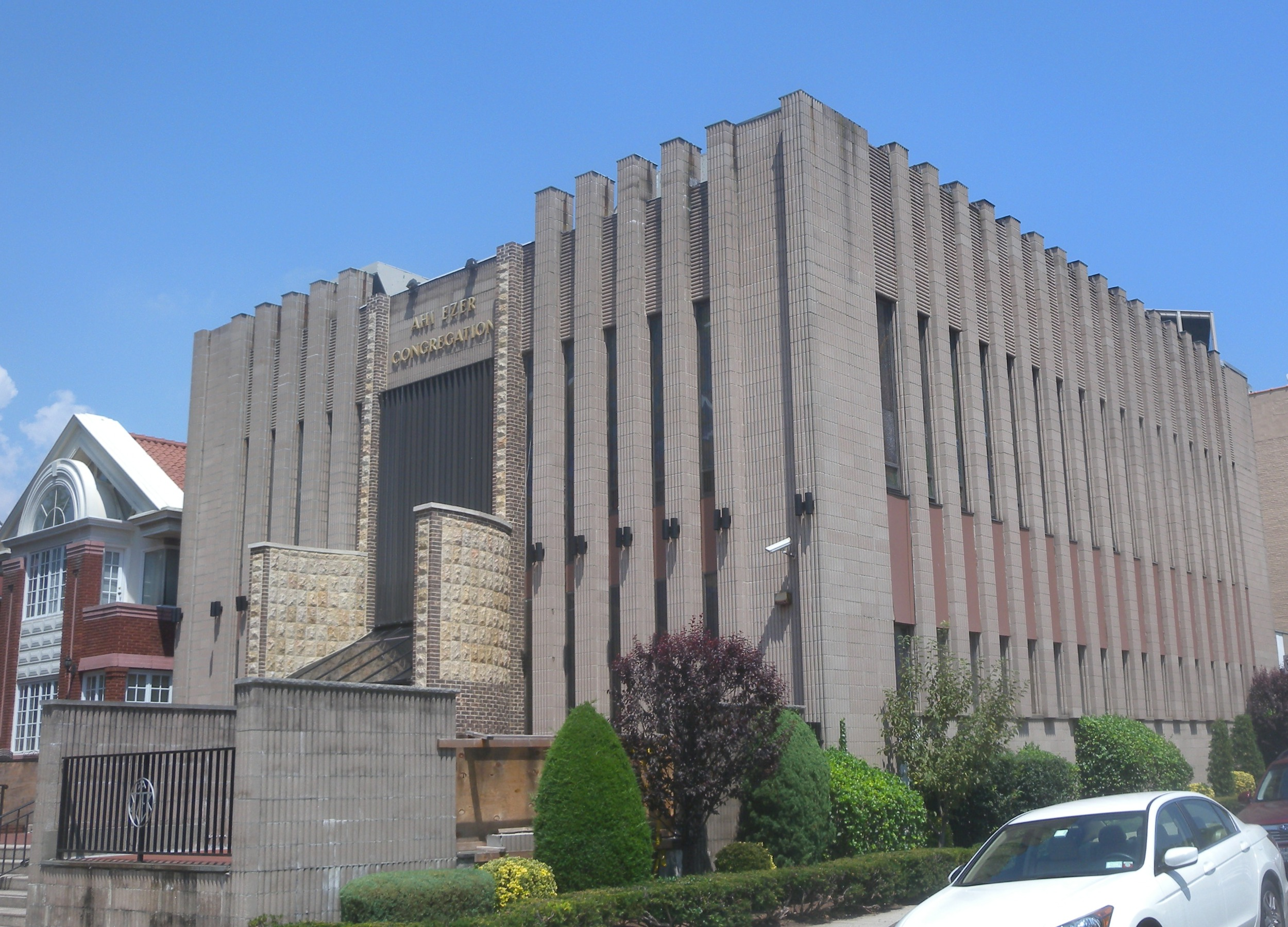 Looking northeast from Ocean Parkway at Ahi Ezer Congregation on a sunny afternoon.